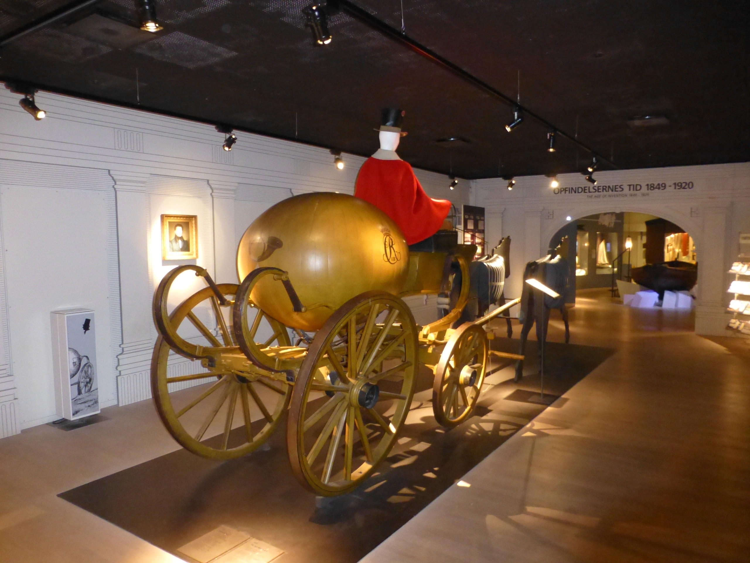 The Danish museum of communication, Post & Tele Museum, in Indre By in Copenhagen. Postal coach known as kuglepost (ball post).